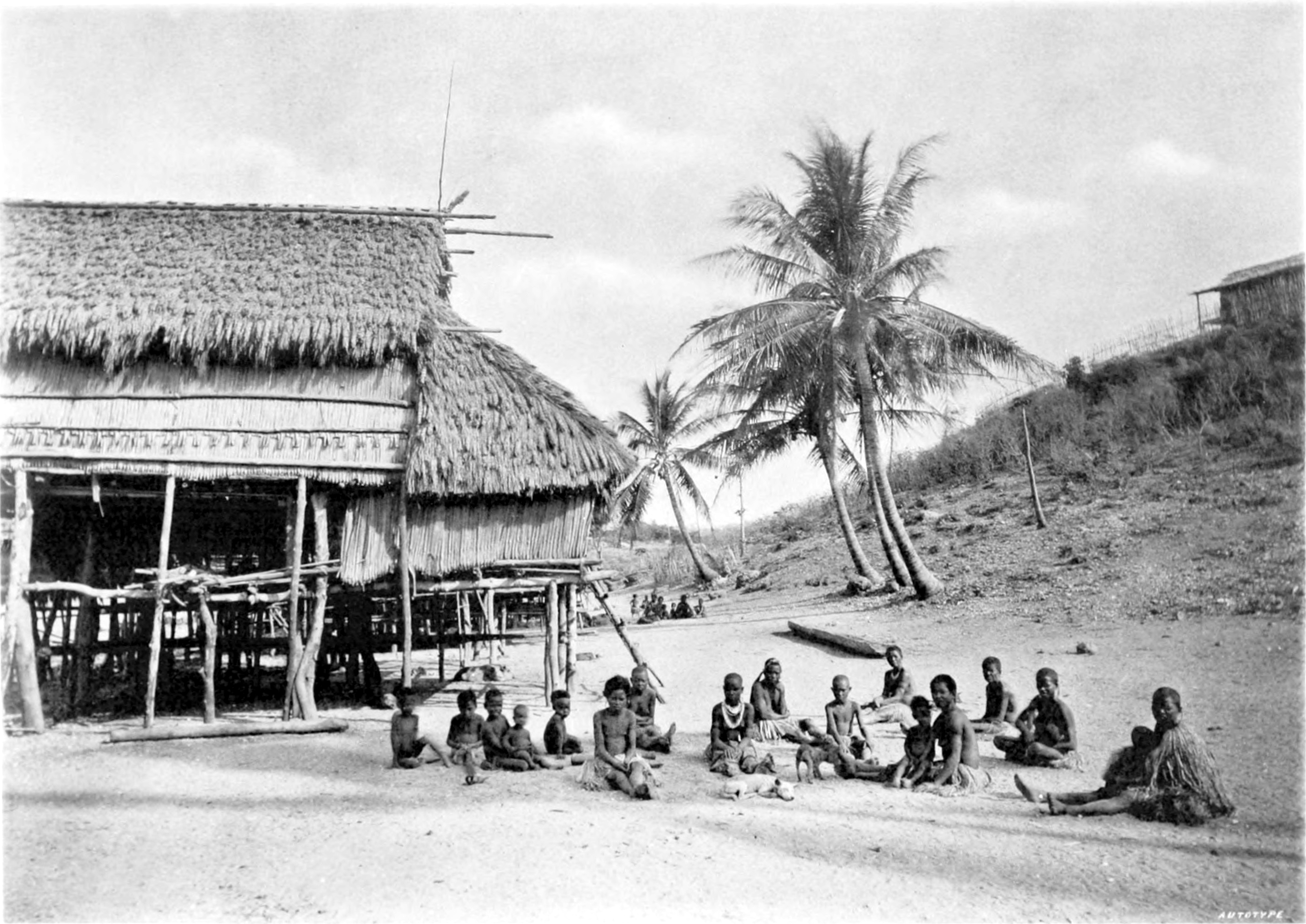 Village of Koiapu, Port Moresby, British New Guinea.